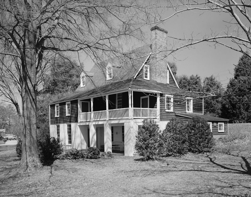 Gloucester Women's Club, U.S. Route 17 & State Route 14, Gloucester (Gloucester County, Virginia) cropped This file comes from the Historic American Buildings Survey (HABS), Historic American Engineering Record (HAER) or Historic American Landscapes Survey (HALS). These are programs of the National Park Service established for the purpose of documenting historic places. Records consist of measured drawings, archival photographs, and written reports. When reusing please credit: Library of Congress, Prints & Photographs Division, VA,37-GLO,3-4 This tag does not indicate the copyright status of the attached work. A normal copyright tag is still required. See Commons:Licensing for more information. This work is in the public domain in the United States because it is a work prepared by an officer or employee of the United States Government as part of that person’s official duties under the terms of Title 17, Chapter 1, Section 105 of the US Code. See Copyright. Note: This only applies to original works of the Federal Government and not to the work of any individual U.S. state, territory, commonwealth, county, municipality, or any other subdivision. This template also does not apply to postage stamp designs published by the United States Postal Service since 1978. (See § 313.6(C)(1) of Compendium of U.S. Copyright Office Practices). It also does not apply to certain US coins; see The US Mint Terms of Use. This file has been identified as being free of known restrictions under copyright law, including all related and neighboring rights.